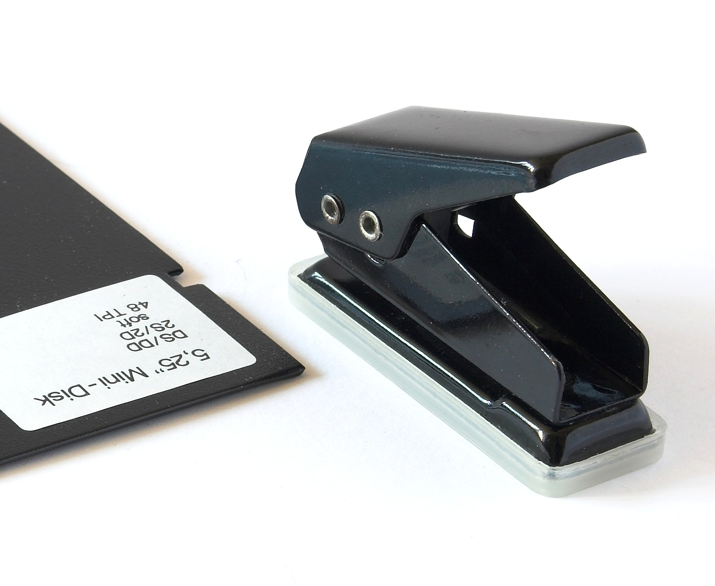 Diskette Punch for 5.25" diskettes